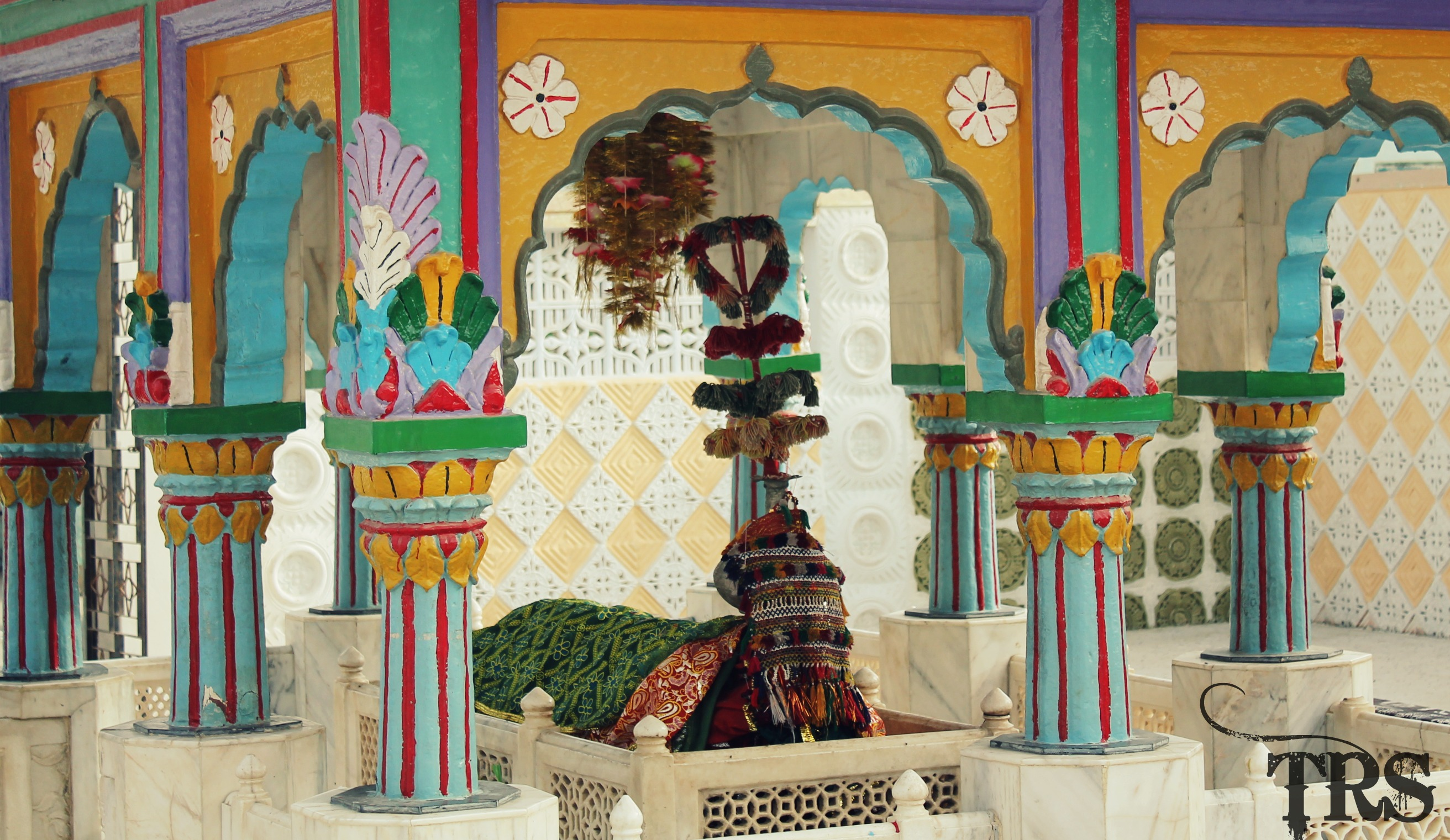 This is the shrine of Hazrat Syed Misri Shah located in Nasarpur, Sindh, Pakistan.